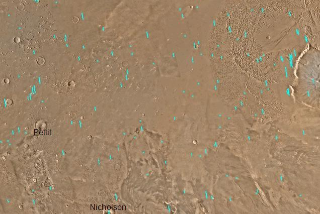 Map of Amazonis quadrangle, Mars. The small, colored rectangles represent image footprints for the narrow angle camera on the Mars Global Surveyor. Some are about 1 mile wide, the otheers are about 2 miles wide. The map was made by the U.S. Geological survey for NASA.